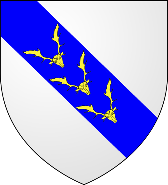 Stanley family, Earl of Derby.